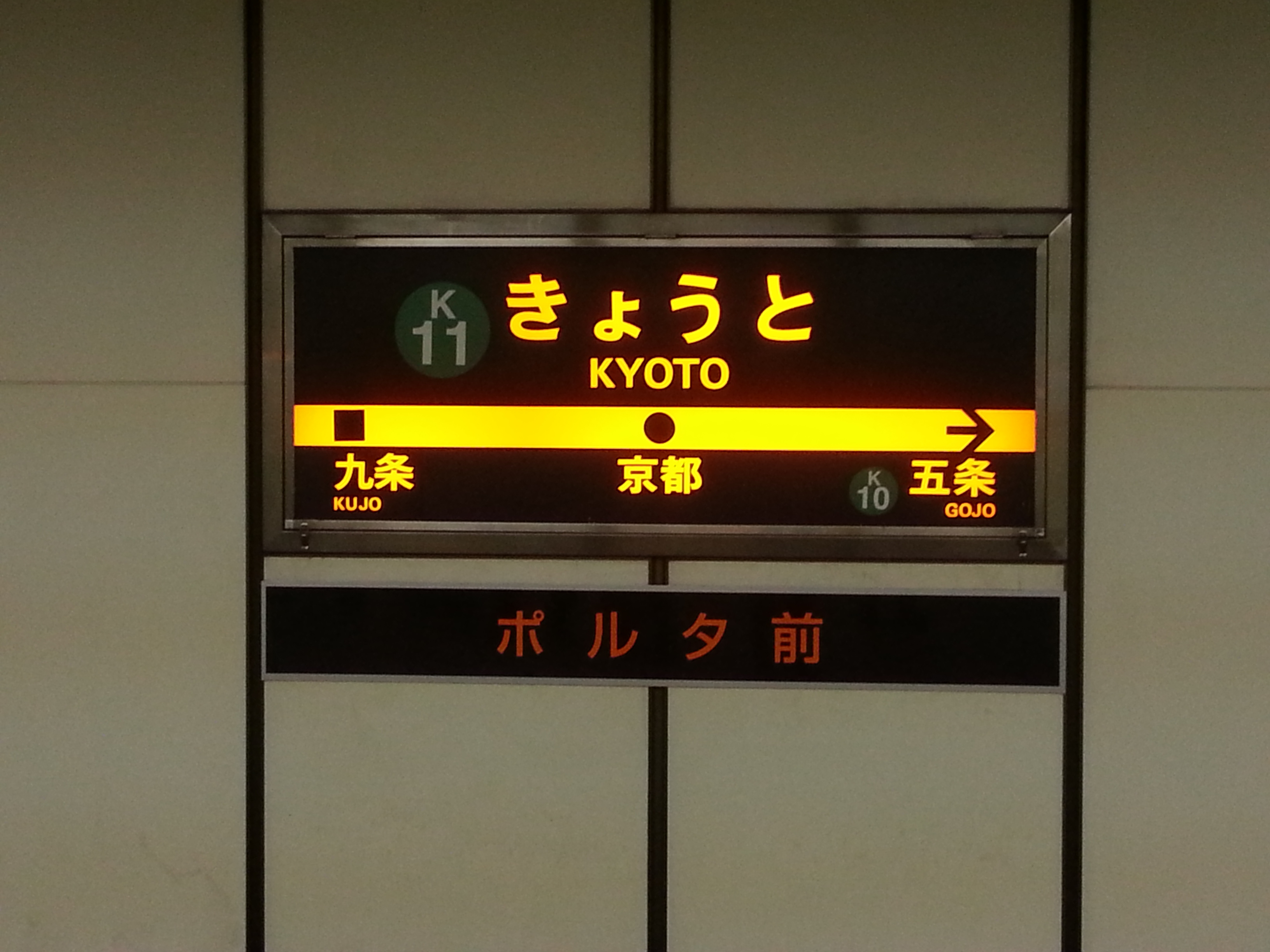 A sign in the subway at Kyoto Station.